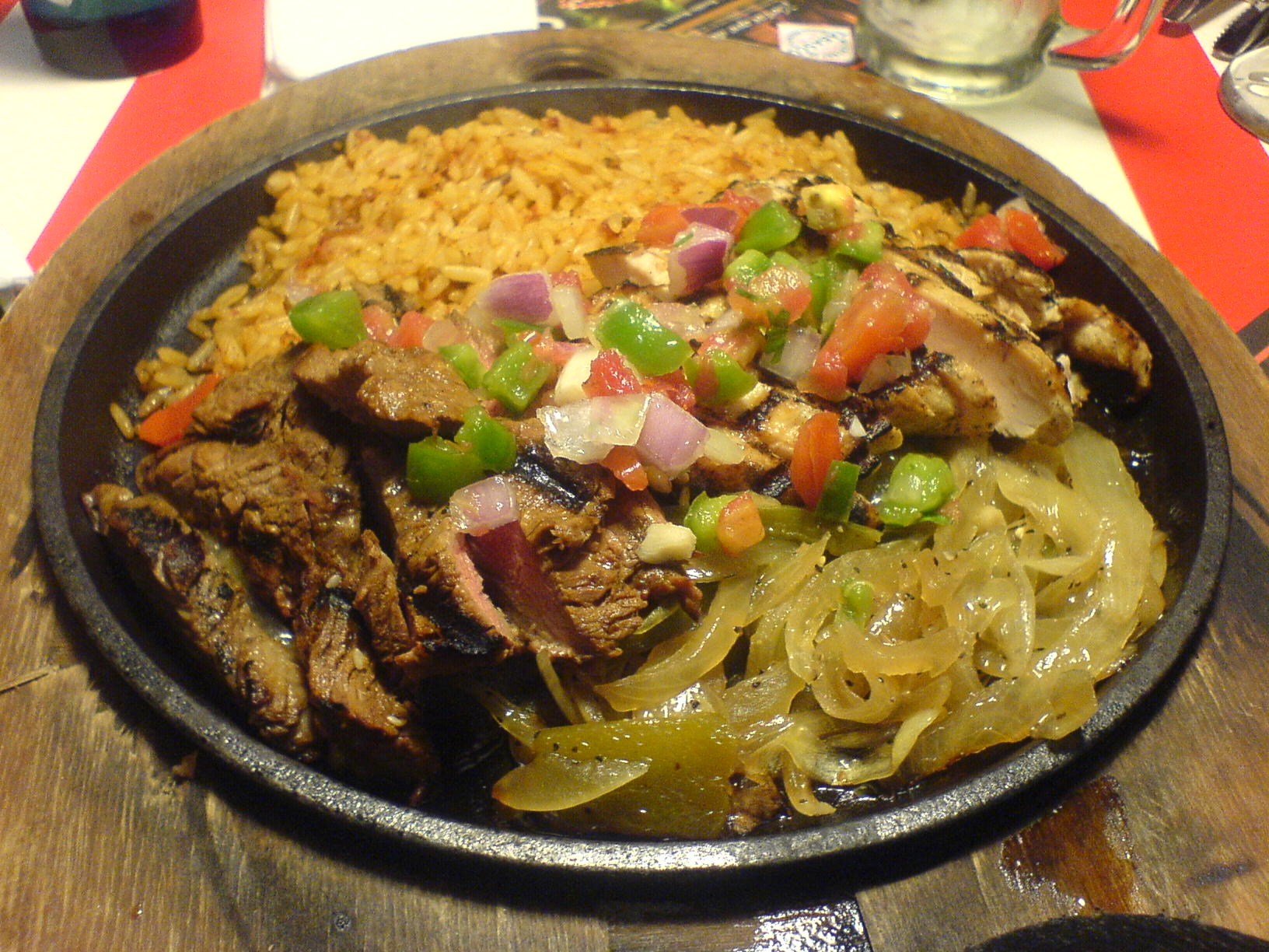 A mixed platter of beef and chicken fajitas with onions and rice as served at a T.G.I. Friday's in the Altamira neighborhood of Caracas, Venezuela.